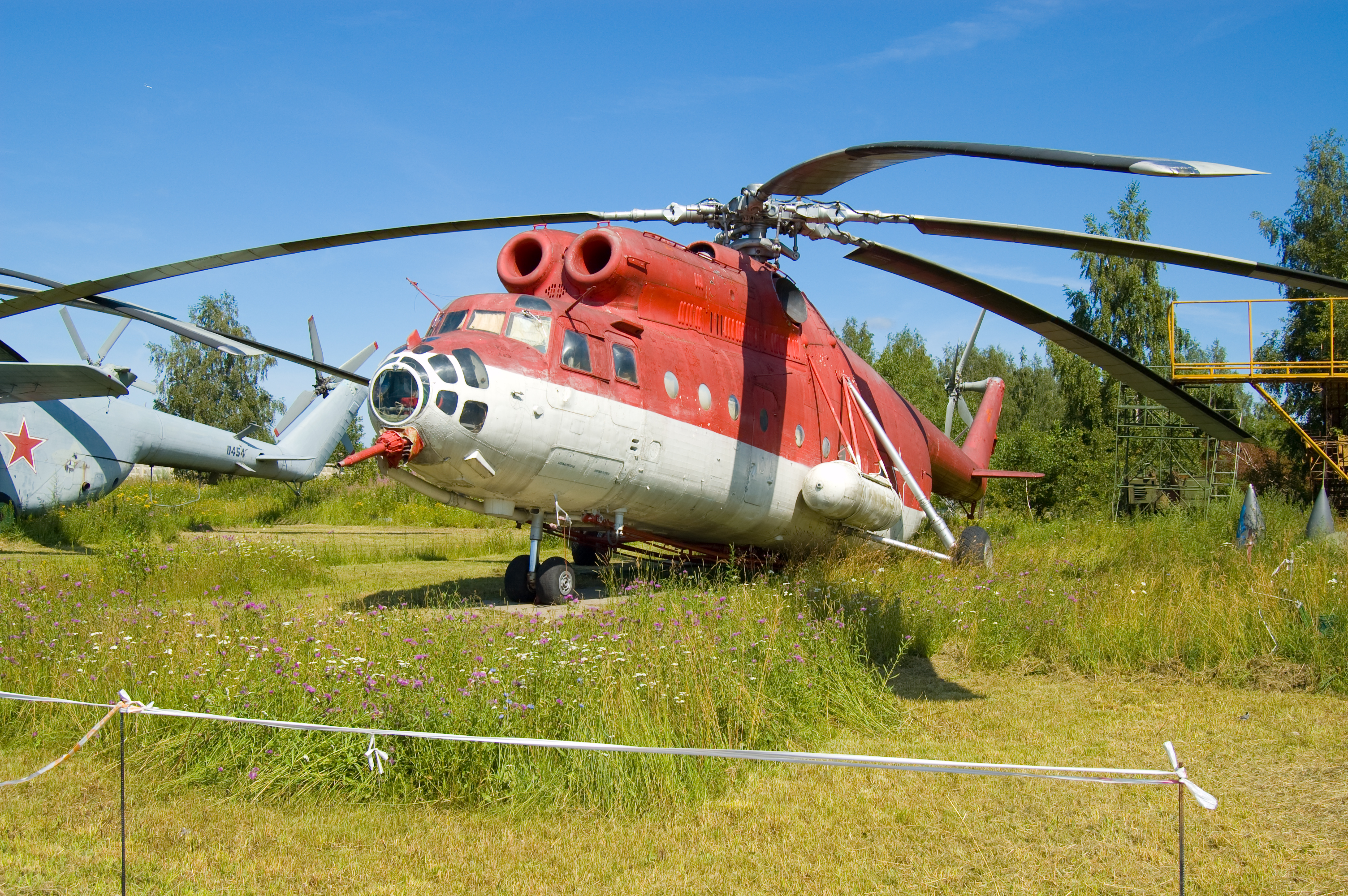 Fire fighting helicopter Mi-6PZh2 in Monino.